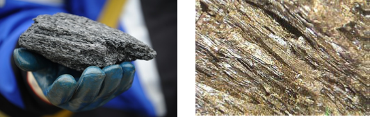 Needle coke and its microstructure